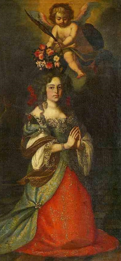 Retrato no MN dos Coches